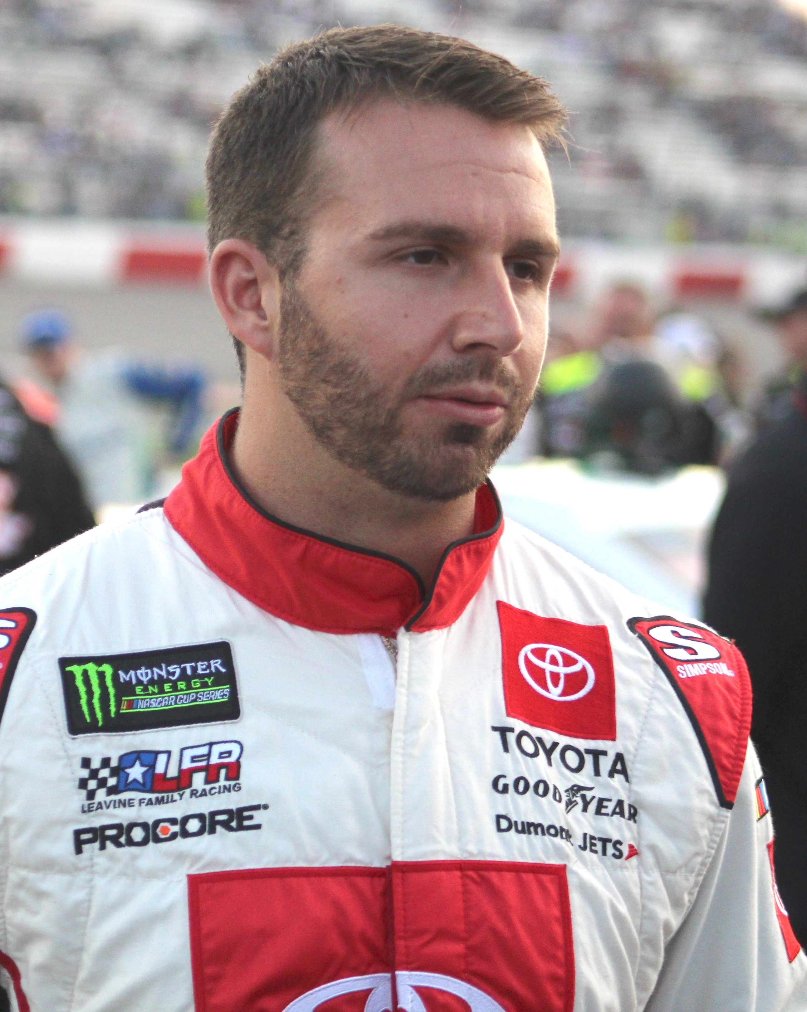 2019 Toyota Owners 400